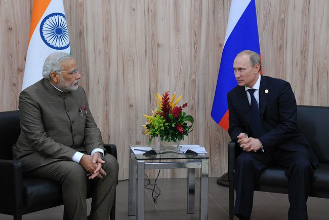 Prime Minister of India, Narendra Modi(L) with President of Russia, Vladmir Putin(R)